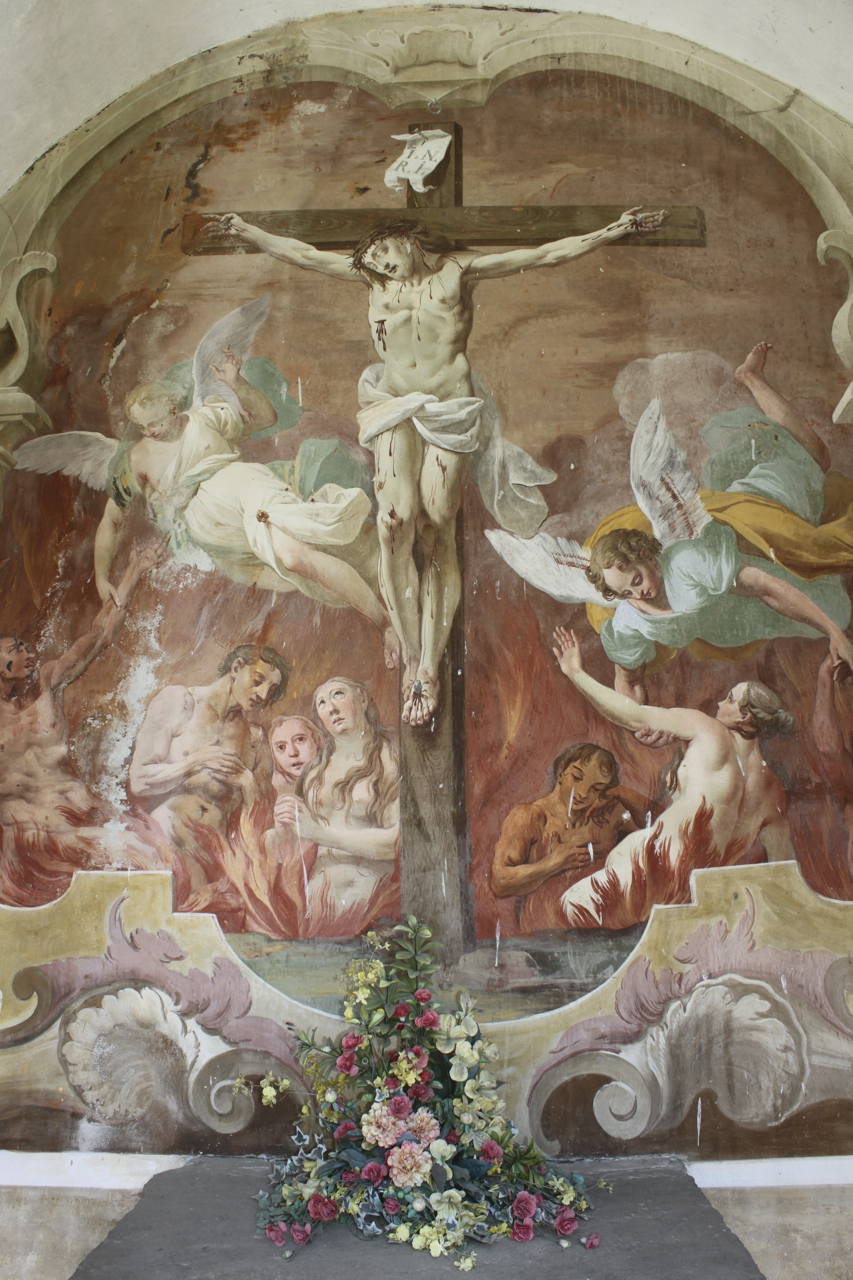 SS. Giacomo e Filippo church, Gordevio (Villa).